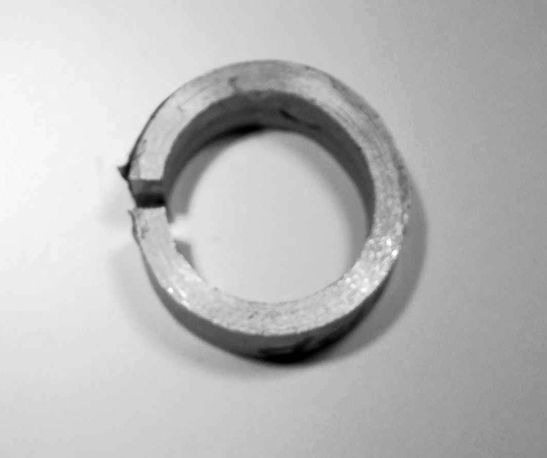 Sliced rig core, as used to build a current sensor